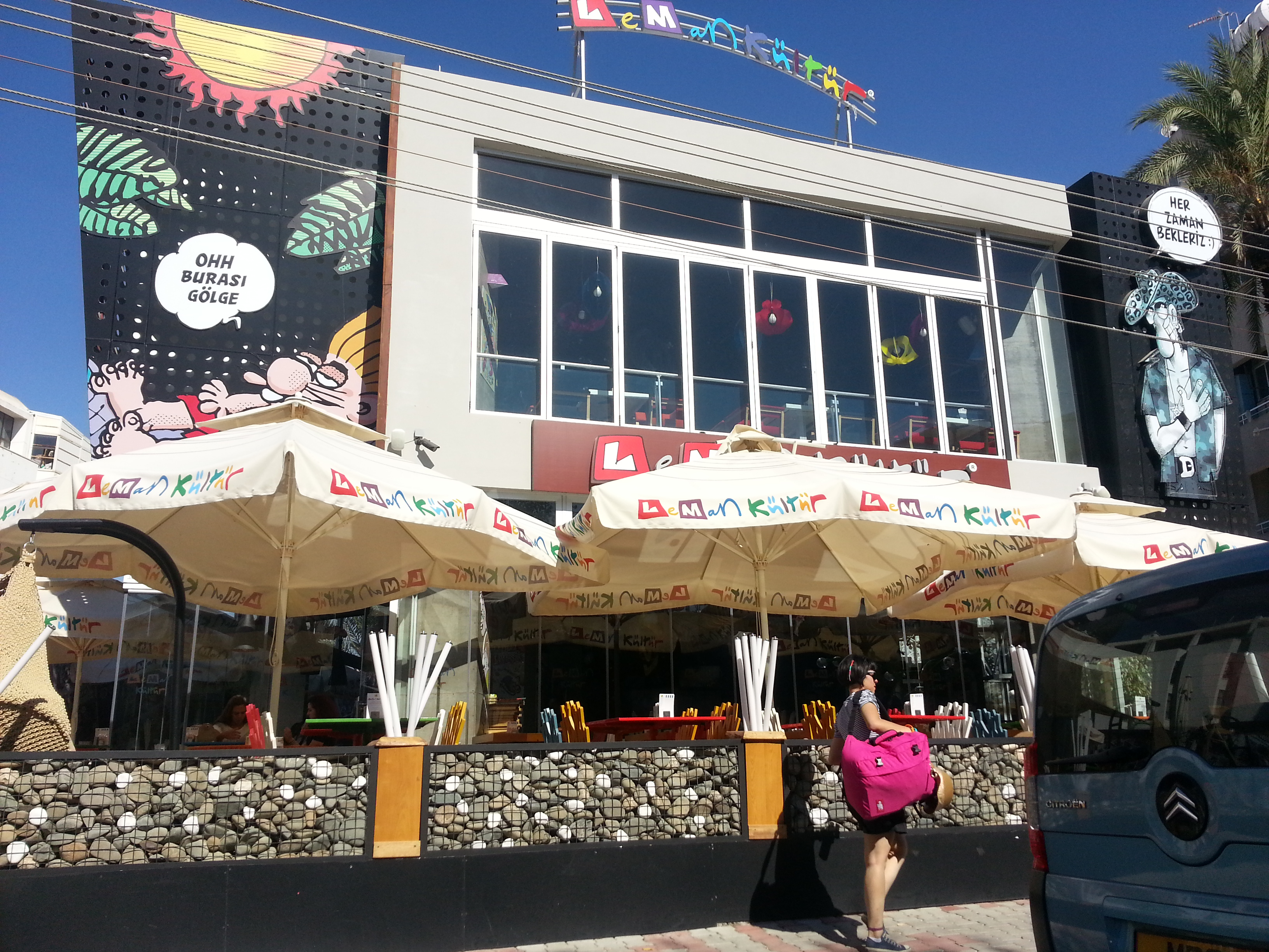 A view from Dereboyu, North Nicosia.